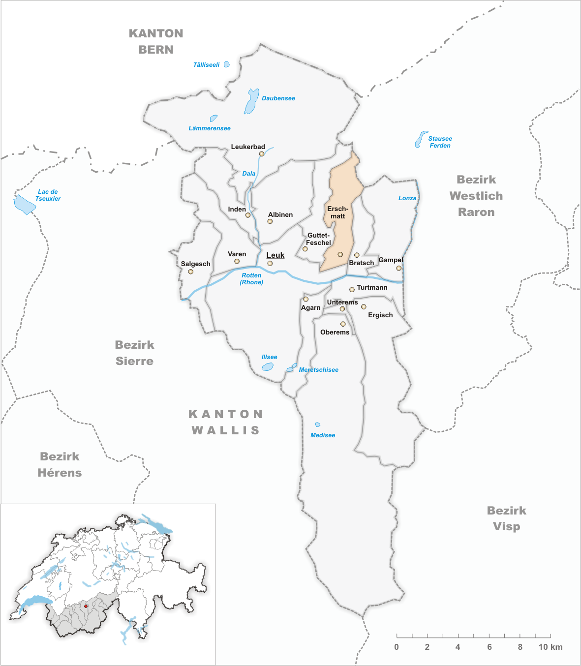 Municipality Erschmatt